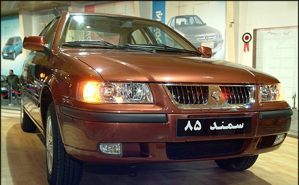 A picture of IKCO Samand 2006.